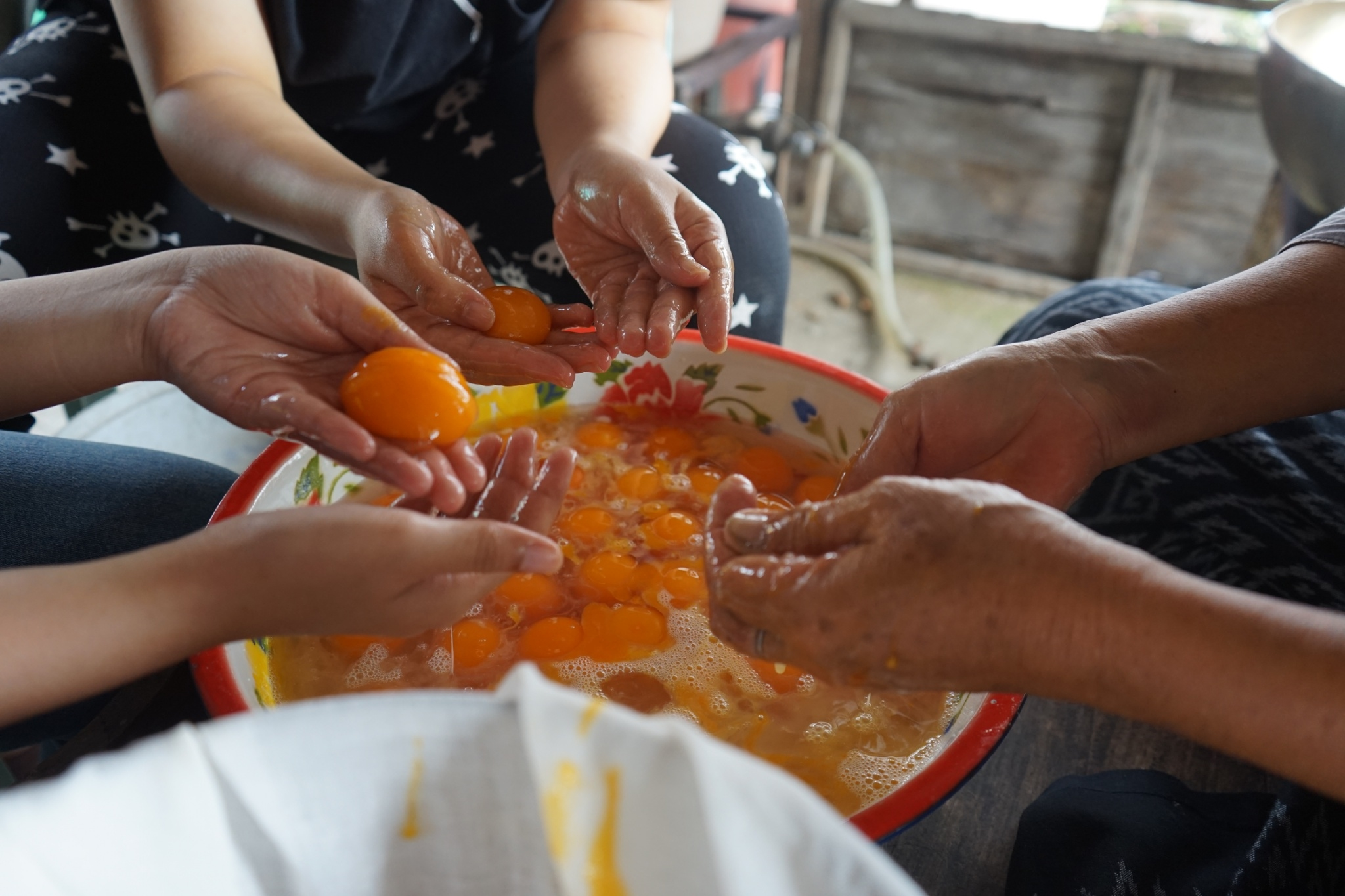 ขั้นตอนแยกไข่แดงออกจากไข่ขาว